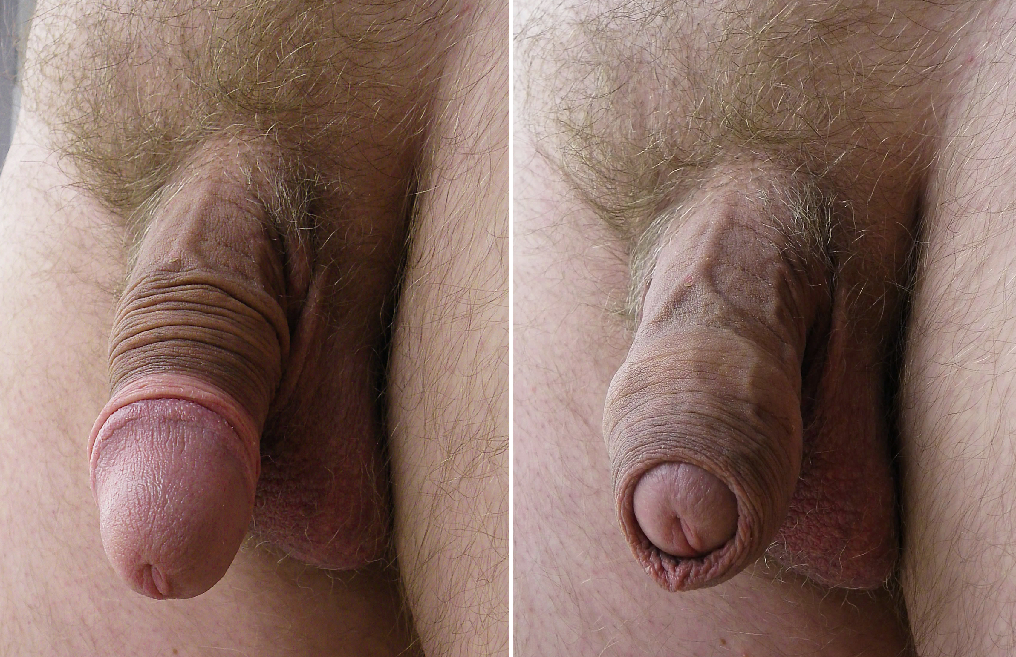 We see a penis with foreskin covering the glans penis and a penis with retracted foreskin.